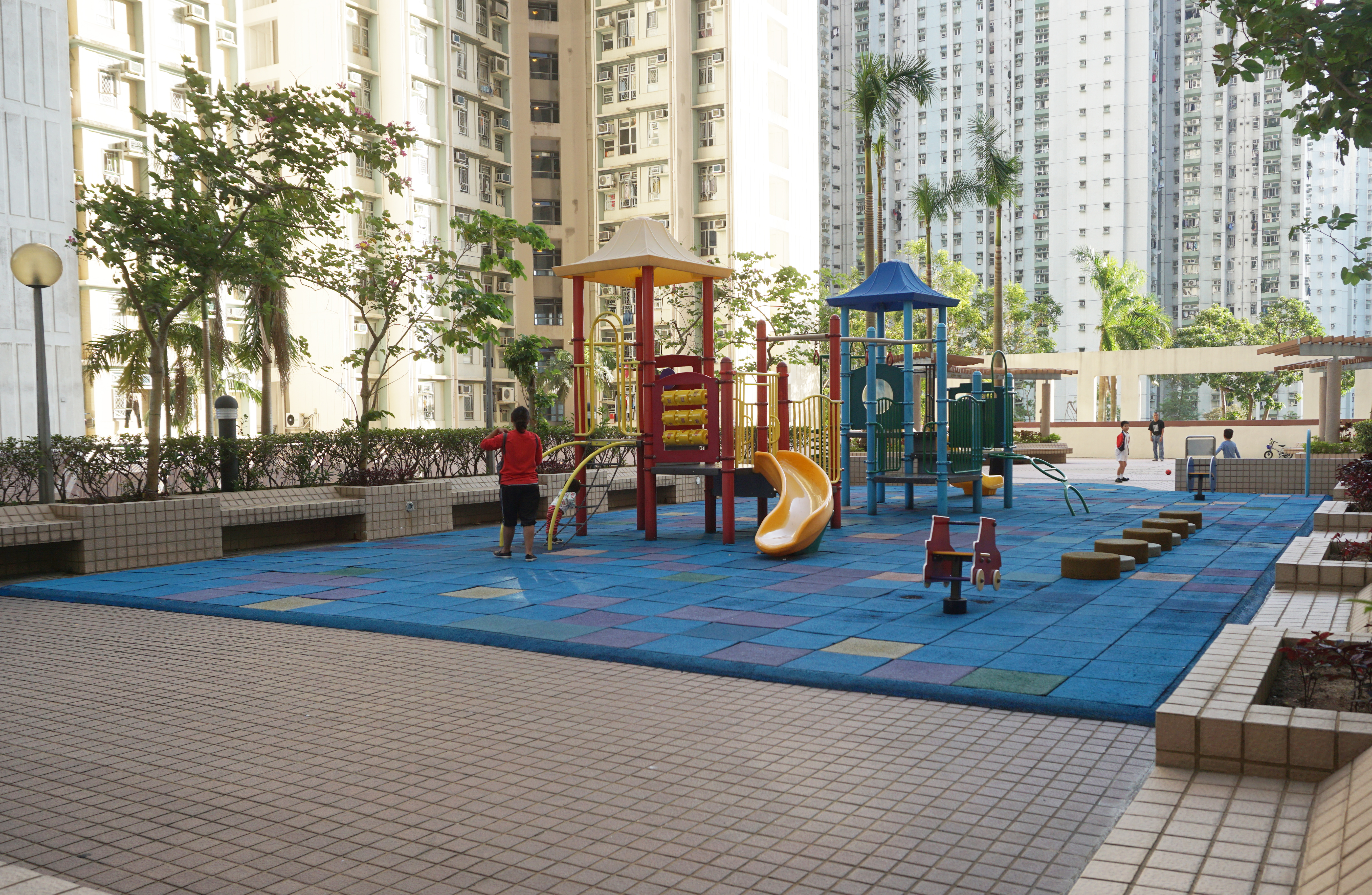 Tsz Oi Court in Tsz Wan Shan, Hong Kong.